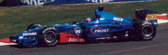 Jean Alesi driving the Prost AP04